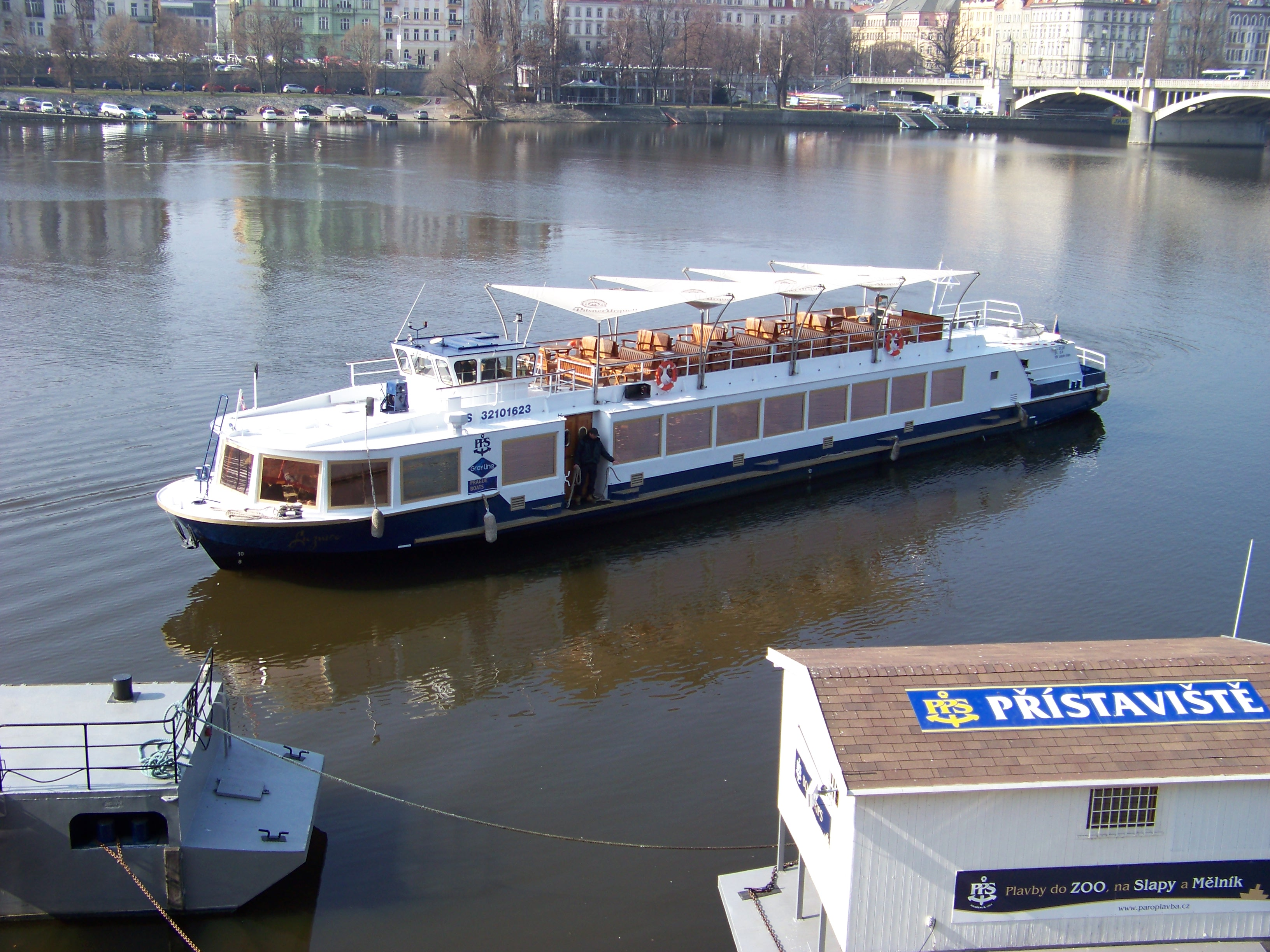 Prague-New Town, Czech Republic. Rašínovo nábřeží, Lužnice ship landing.